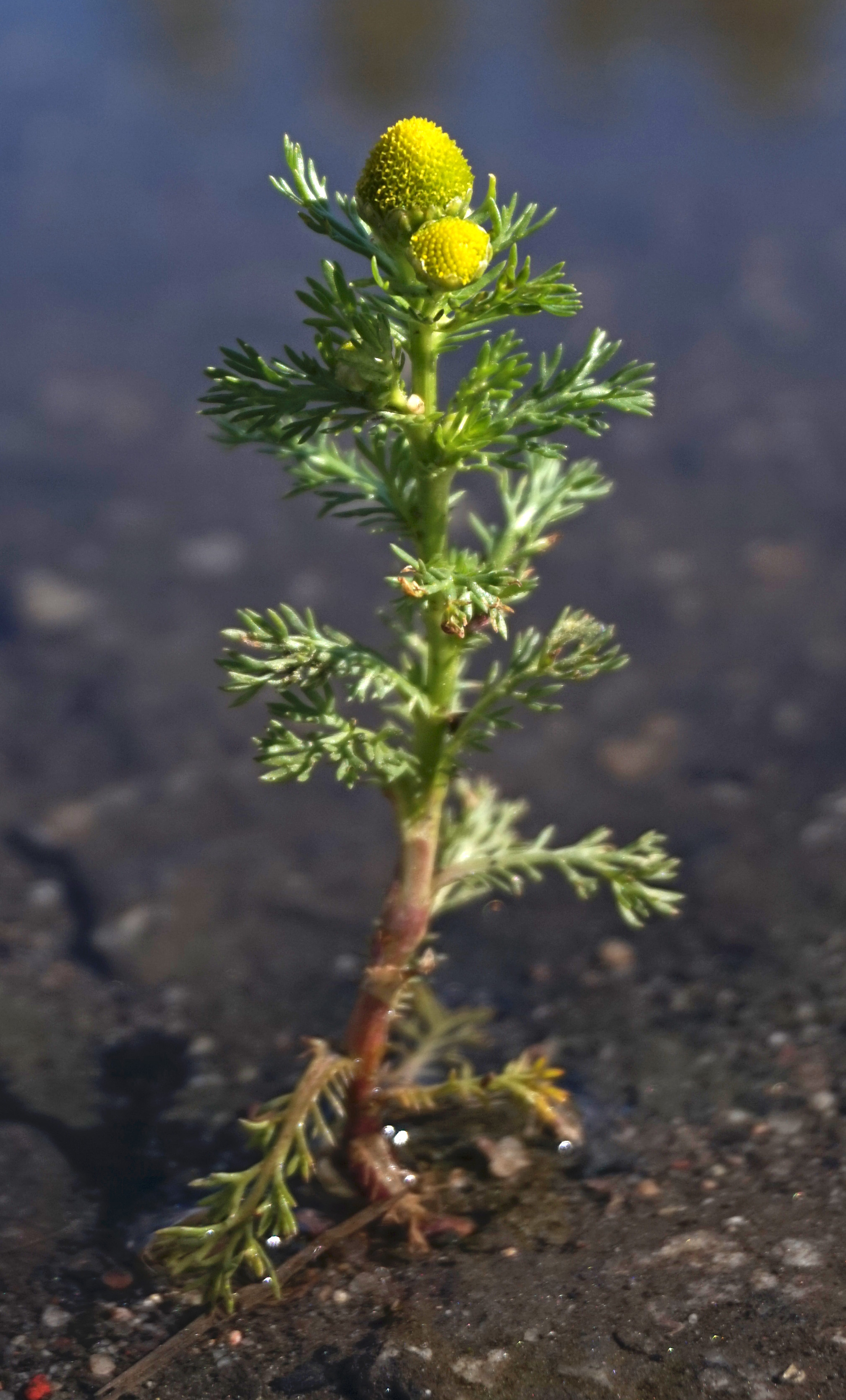 A pineappleweed in a puddle, Jyväskylä.